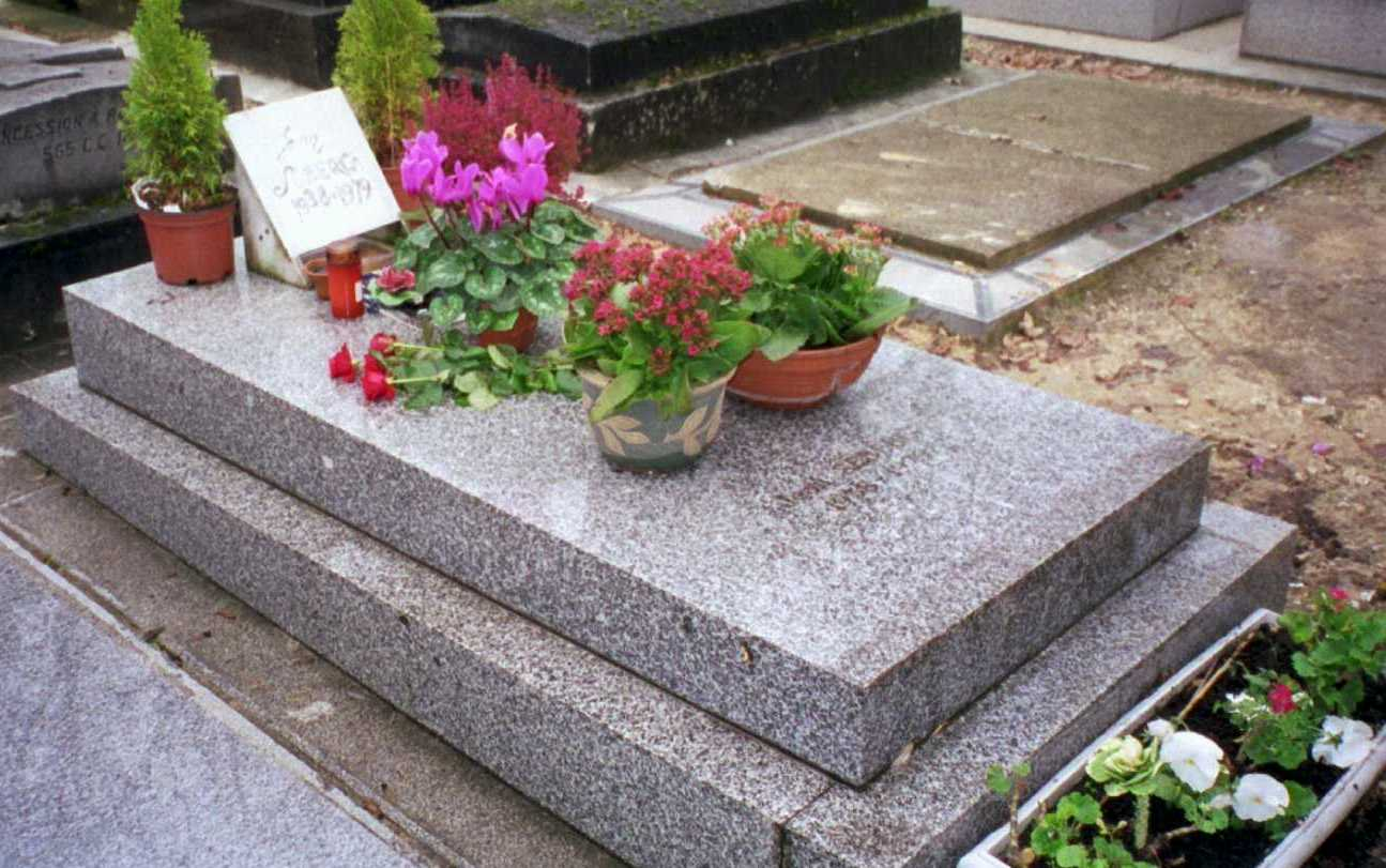 Grave of Jean Seberg.